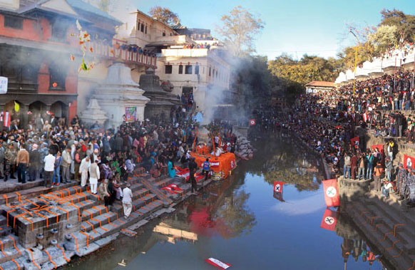 aaryaghat of pashupatinath temple kathmandu nepal